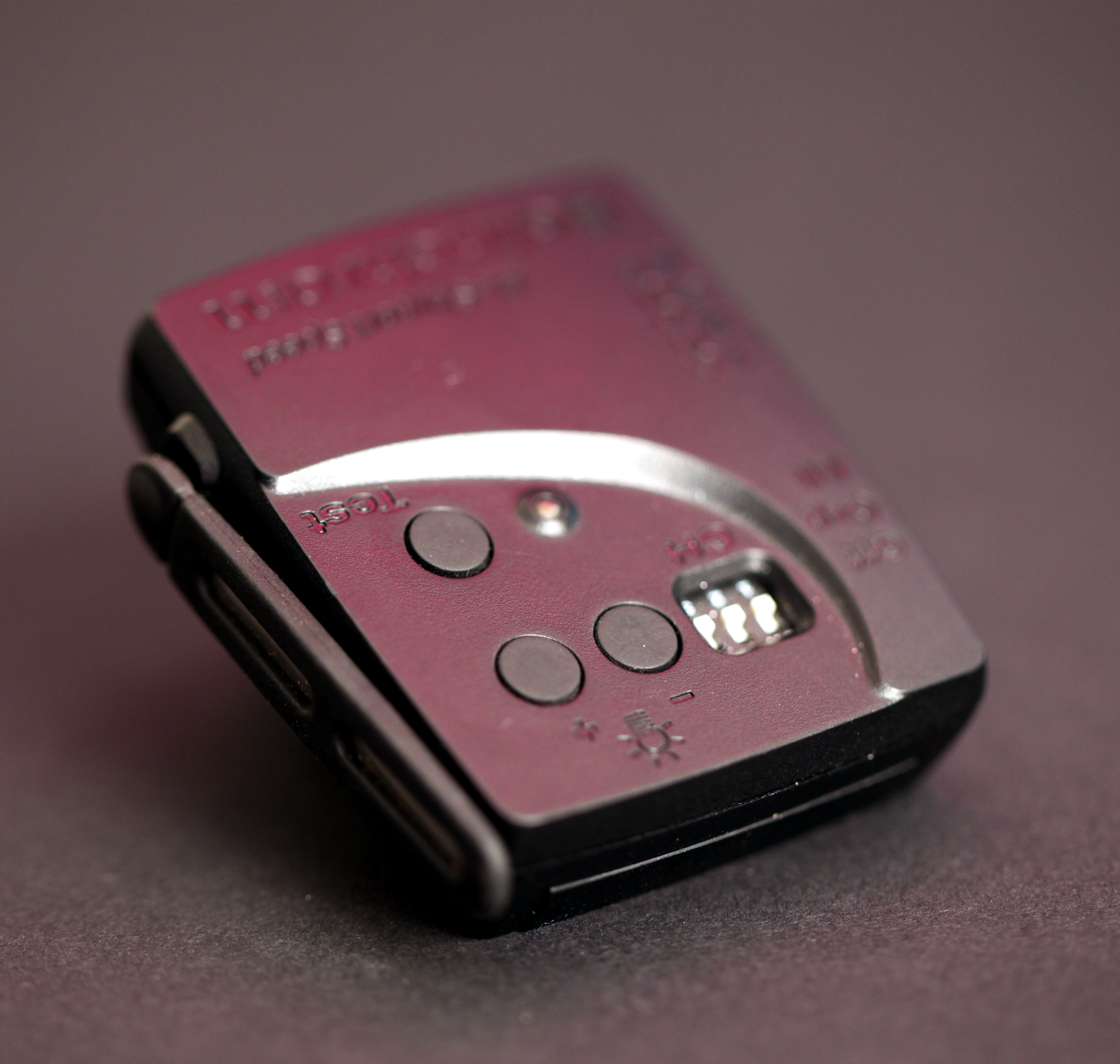 Elinchrom skyport